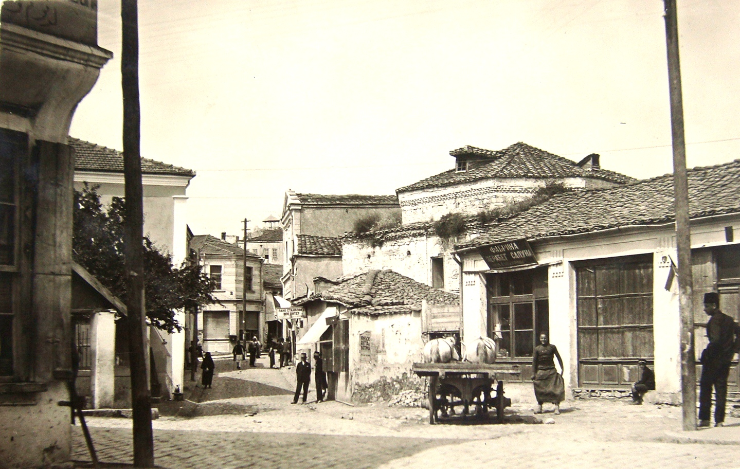 Historical images of Skopje: Part of Skopje This media file is produced by Wikipedian in Residence in Category:Wikipedian in Residence at DARM in 2016.